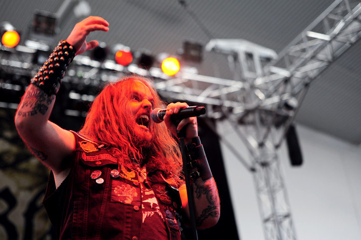 No Sleep Til Festival 2010